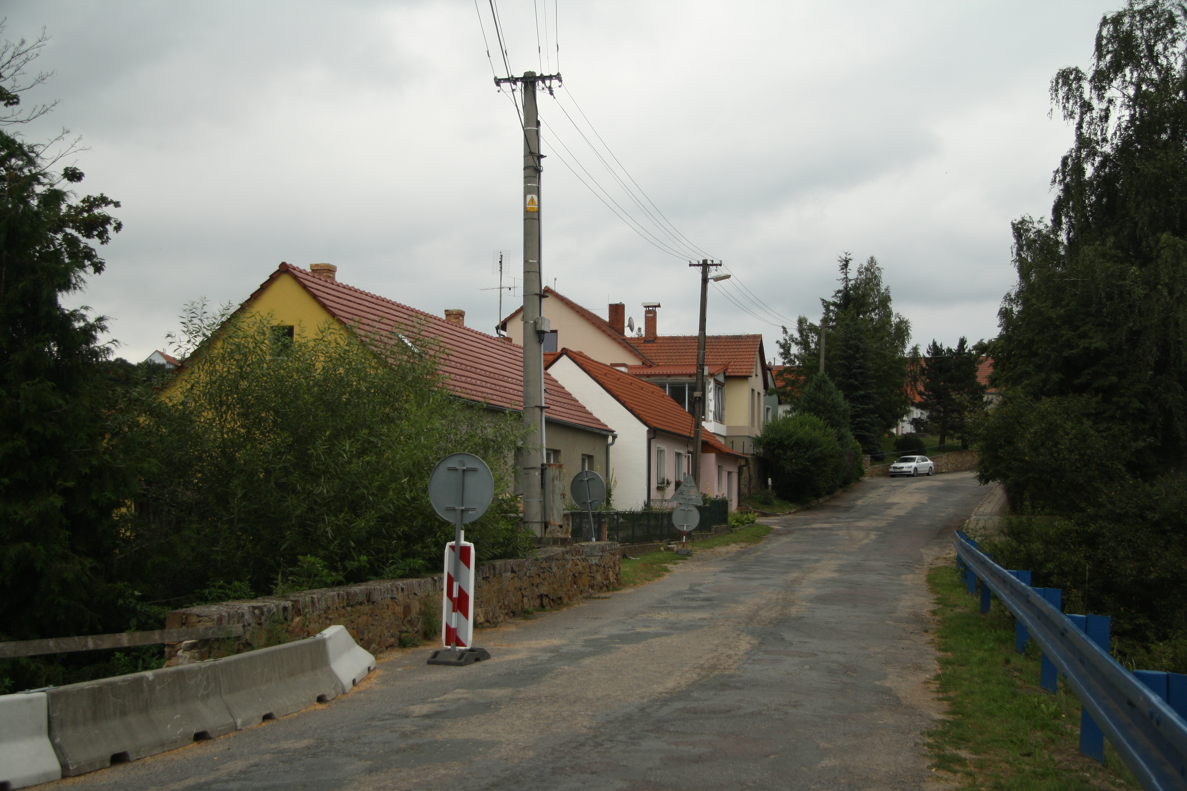 Center of Boskovštejn, Znojmo District.